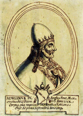 Sketch of Pope Hadrian IV by 17th century artist